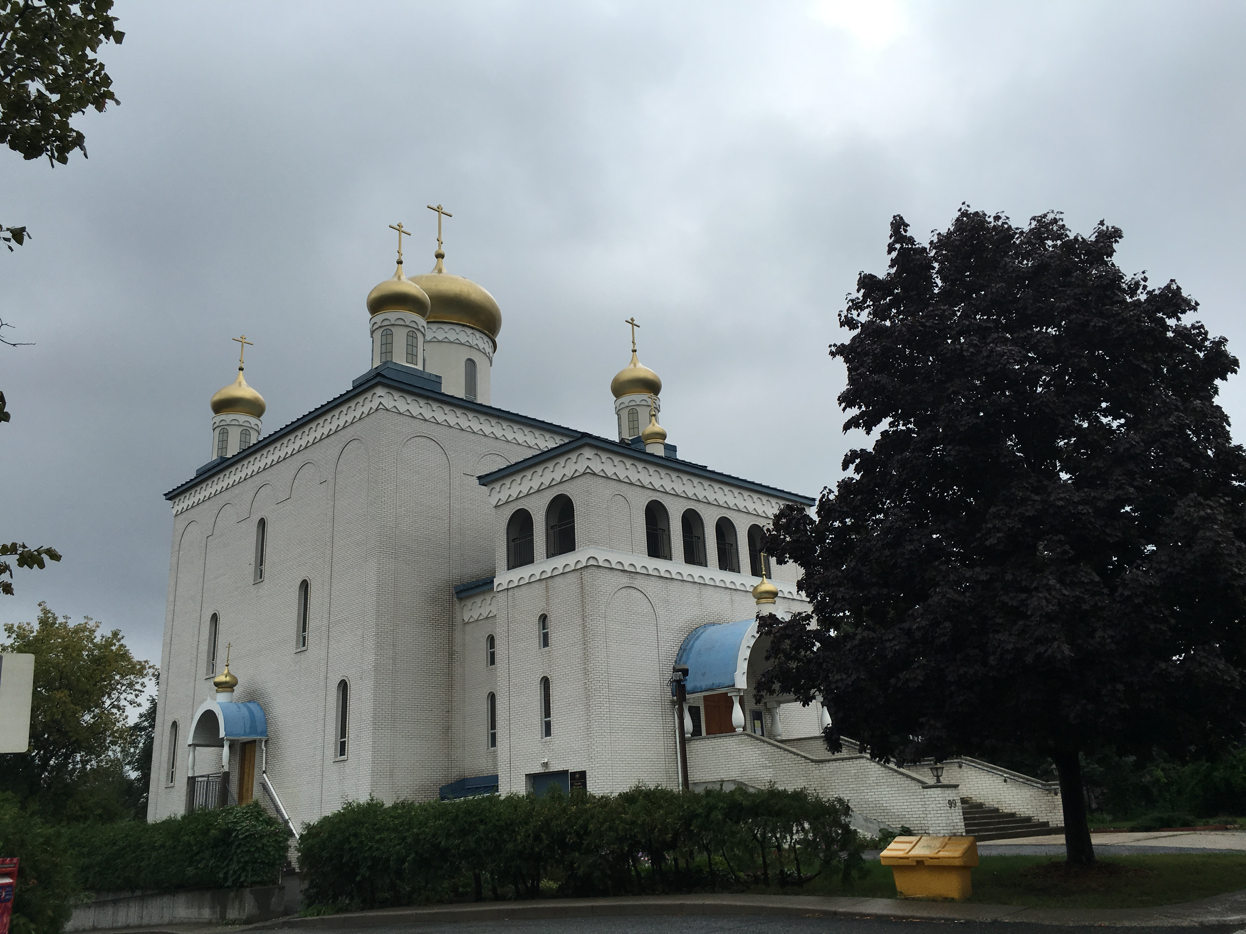 Russian Orthodox Church